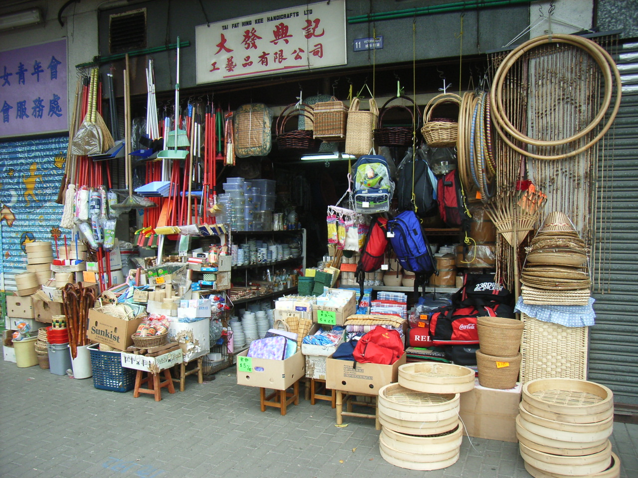 摩星嶺 Victoria Road, Kennedy Town, HK